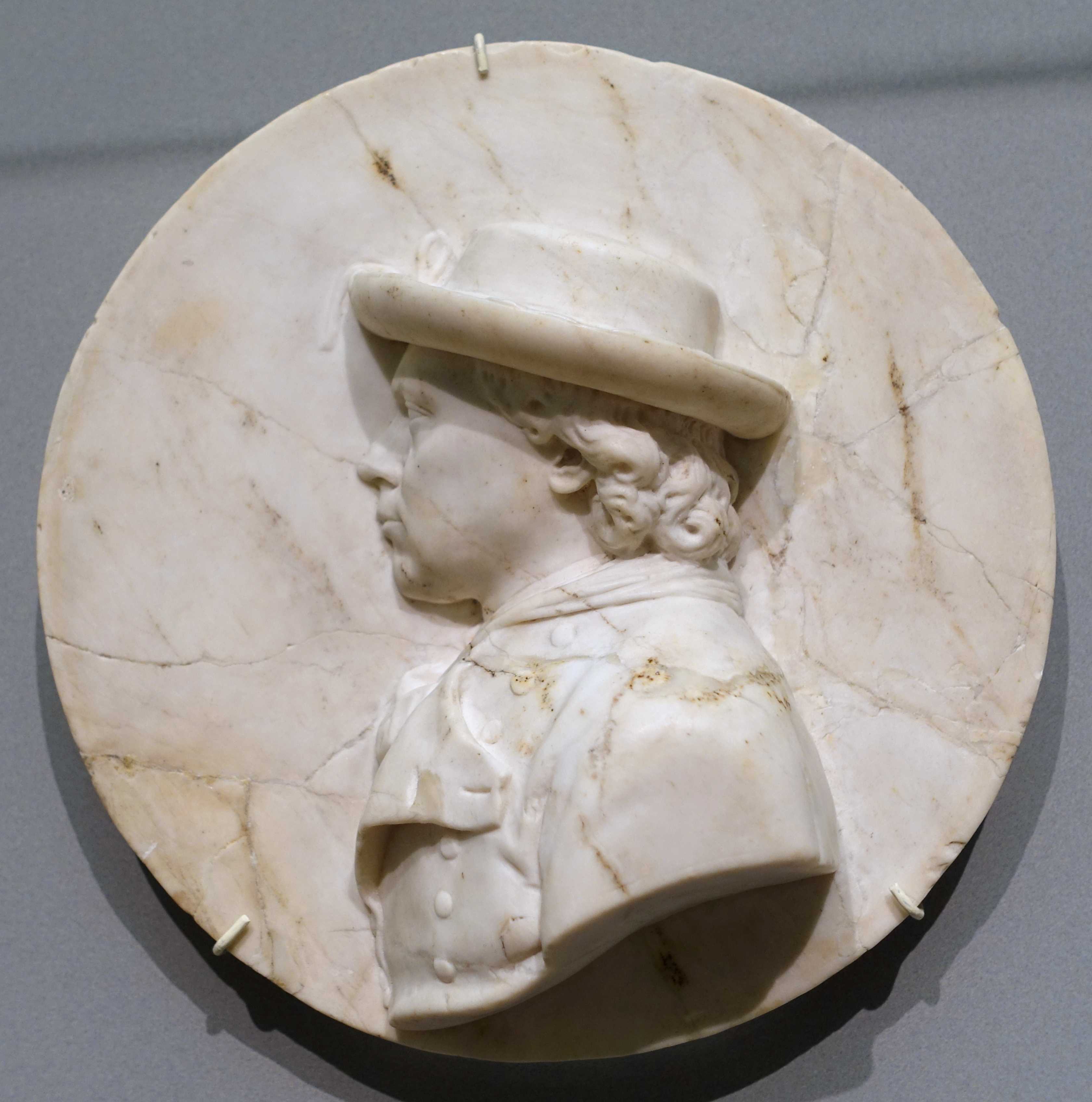 Exhibit in the Bode-Museum, Berlin, Germany. This work is in the public domain because the artist died more than 100 years ago.